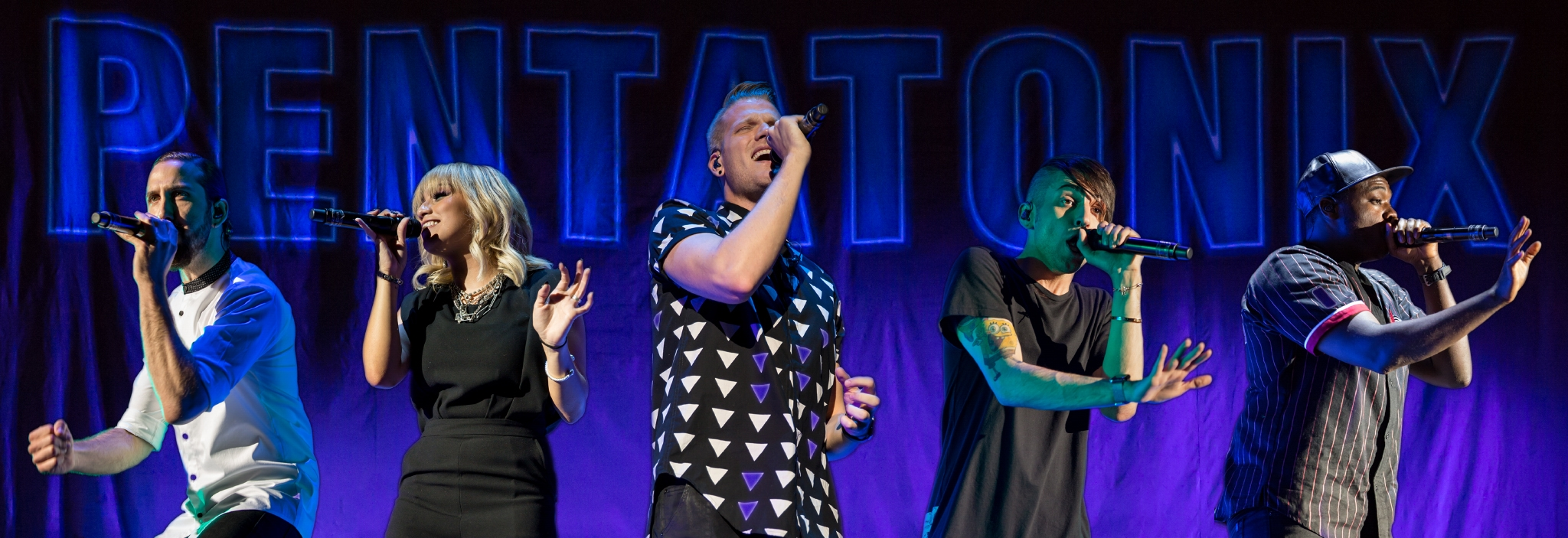 Combination of photos from Pentatonix performing at the Austin360 Amphitheater in Austin, Texas on August 29, 2015.